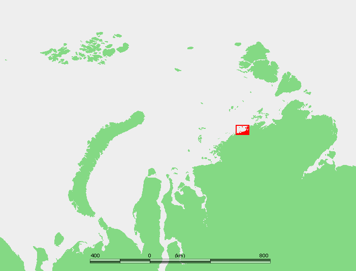 Nordensjelda Islands